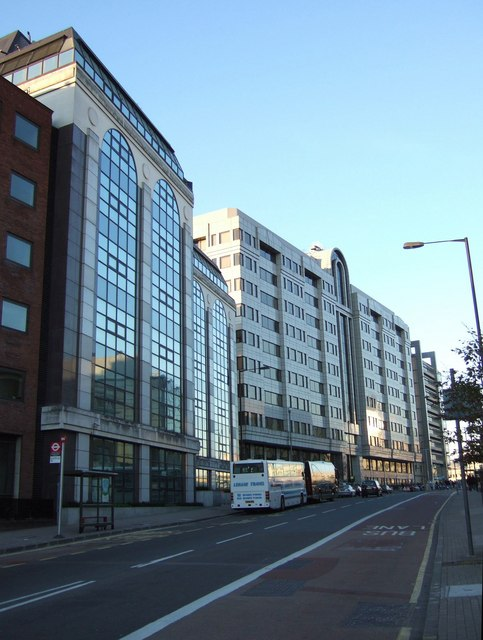 Southwark Bridge Road The road leading up to the bridge over the Thames from Southwark. The further building on the left is Rose Court, home of the Health and Safety Executive.